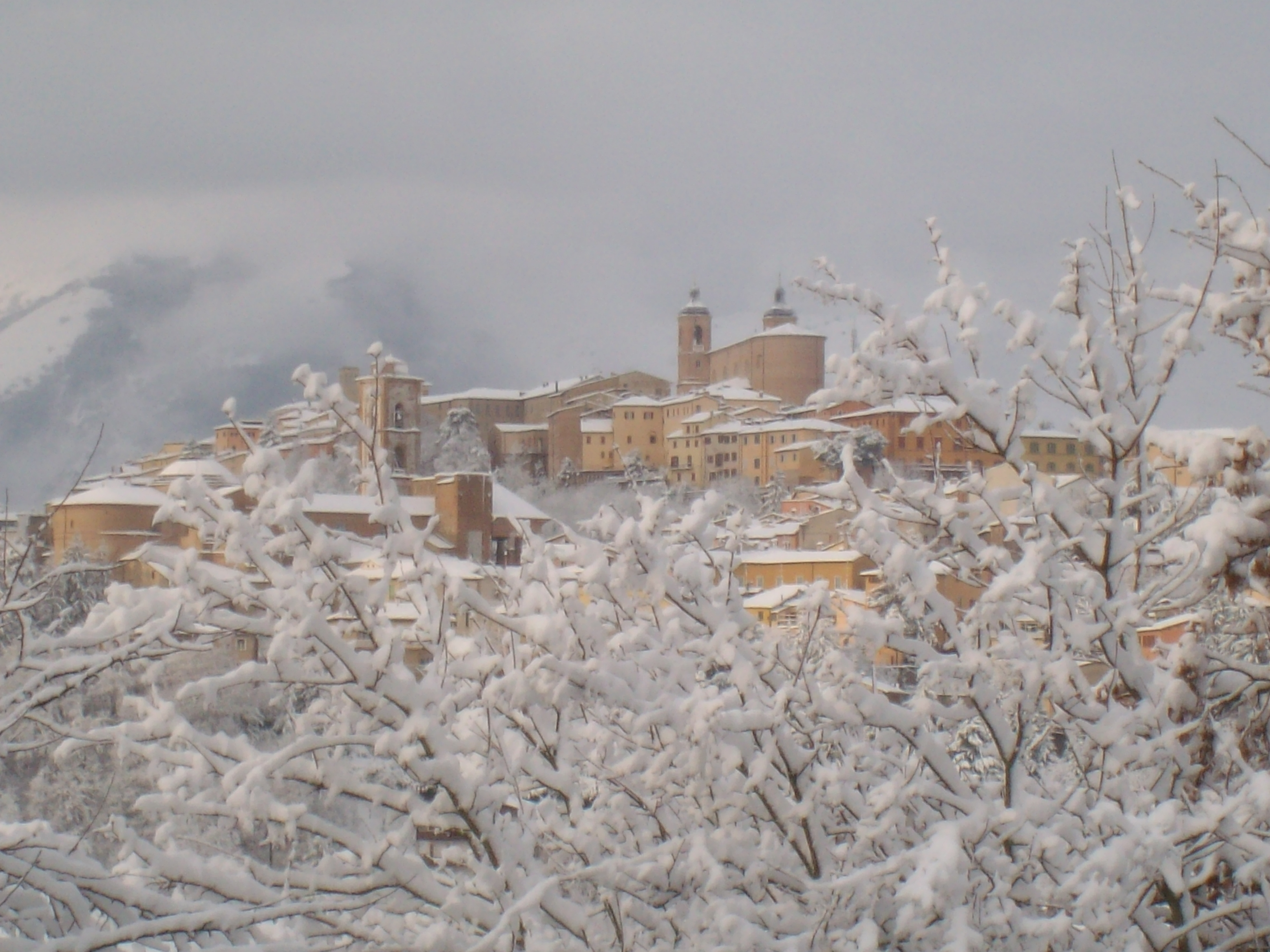 Camerino (MC)